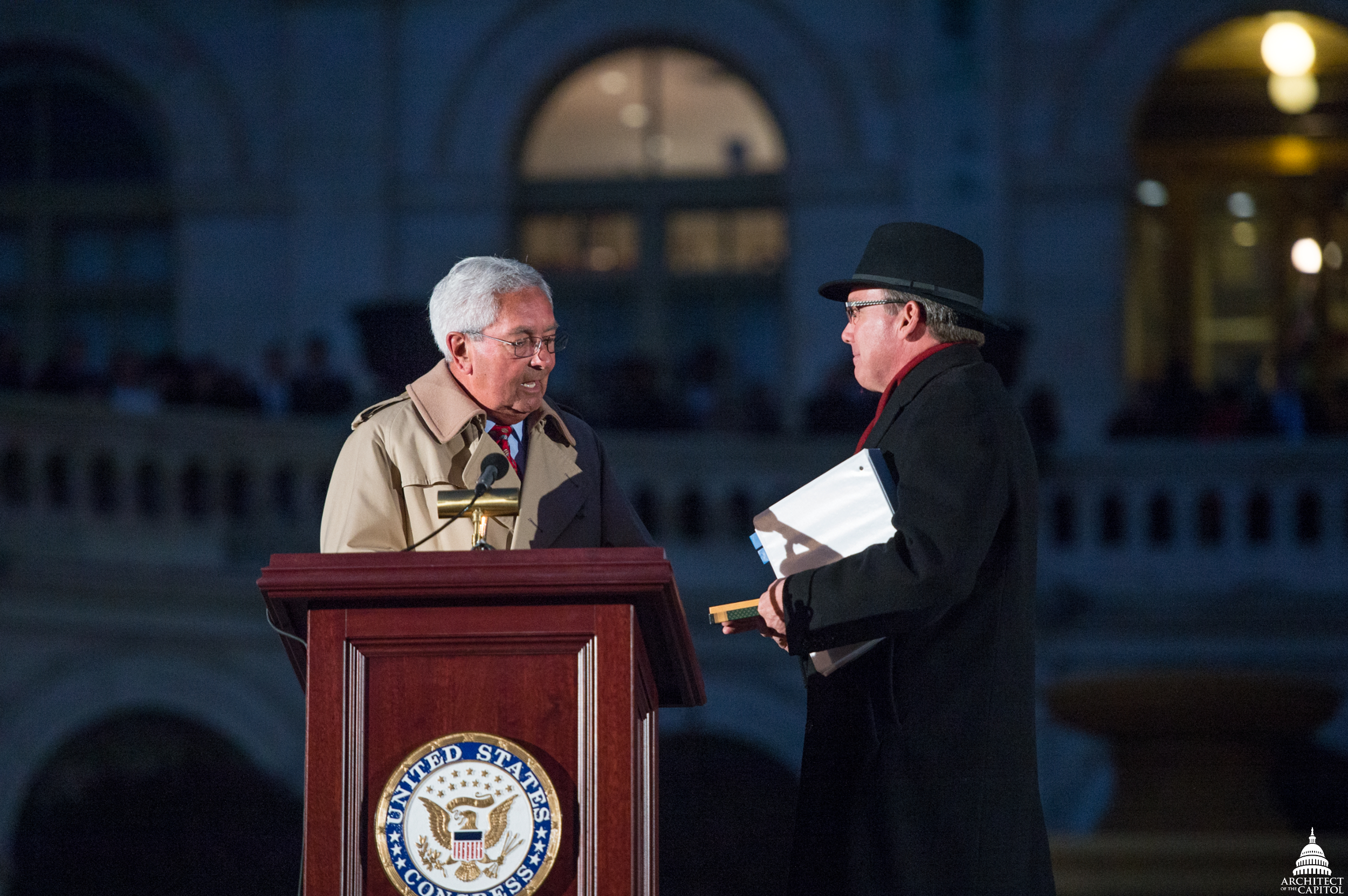 Presentation of the U.S. Capitol Historical Society 2014 Ornament by the Ronald A. Sarasin, President, U.S. Capitol Historical Society, to Architect of the Capitol Stephen T. Ayers, FAIA, LEED AP.